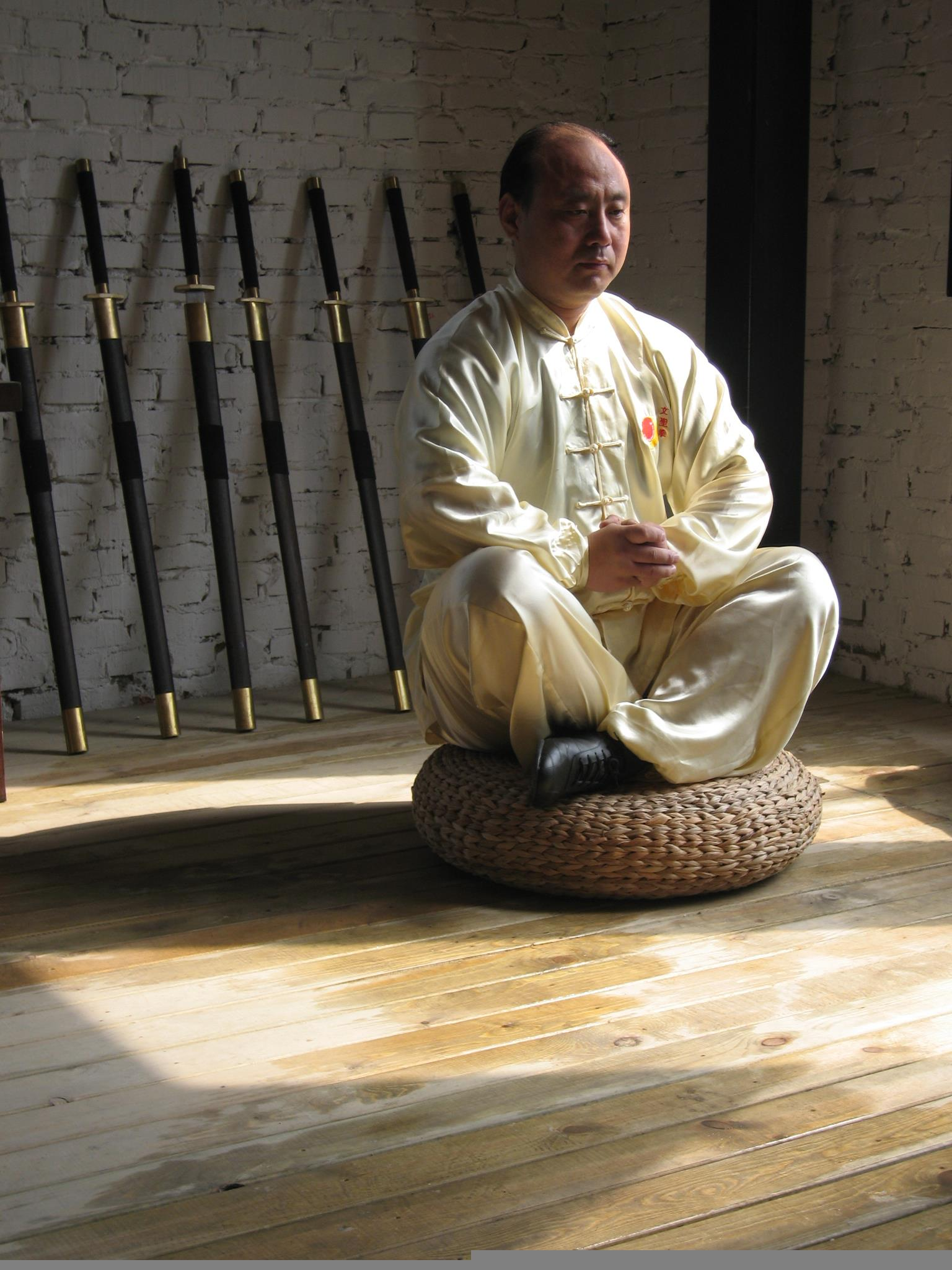 master Wang Anlin